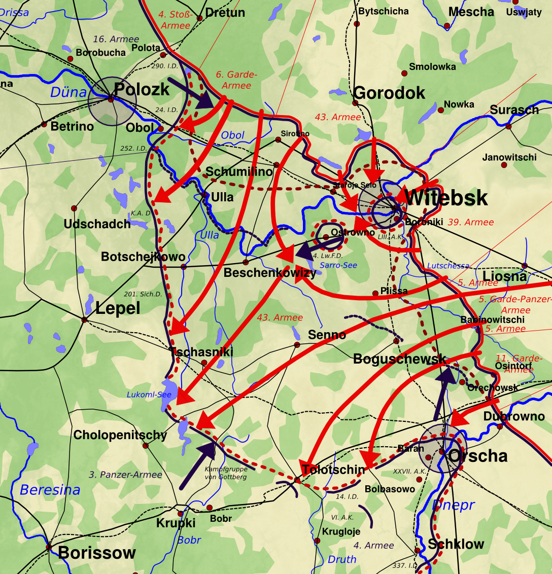 Operation Bagration: Battle of Witebsk, Development 22nd - 26th June 1944, 2200